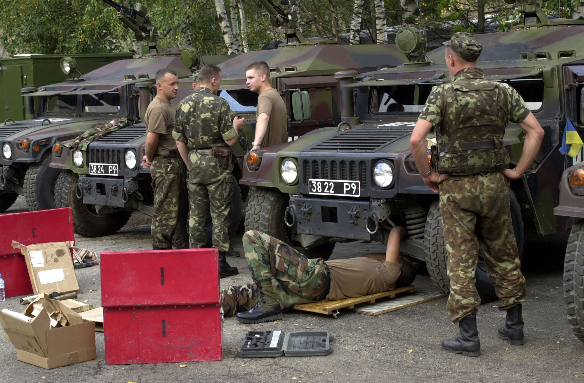 Specialist Michael Campbell replaces the brake rotors of a High Mobility Multi-Wheeled Vehicle in Stripe, Kosovo, on October 5, 2001. Campbell is part of Headquarters and Headquarters Company, 2nd Brigade, 101st Infantry Division out of Fort Campbell, Ky. The 2nd Brigade motor pool has been training the Polish Ukranian Battalion (POLUKRBAT) in the primary maintenance and mechanical operations of the HMMWV's since they acquired them. They are in Kosovo in support of the peacekeeping mission, Operation Joint Guardian II.